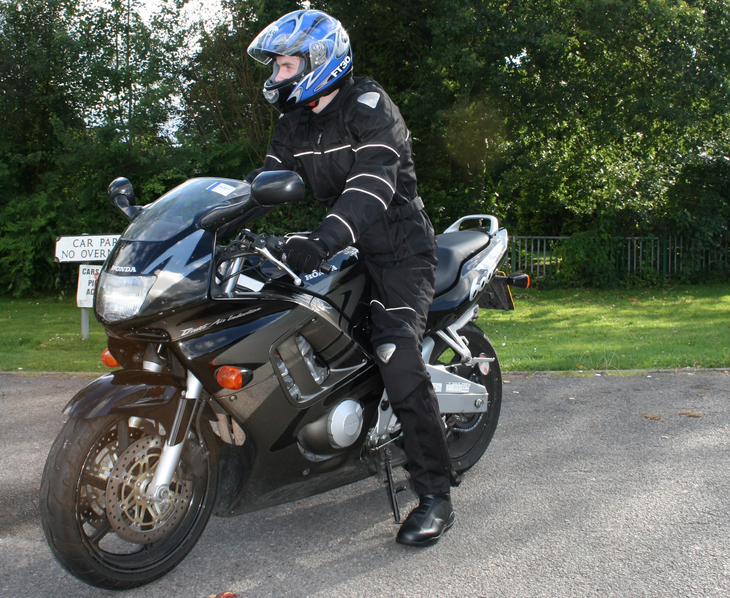 It looks like Ben's about to pinch my bike while I take this shot ;-)